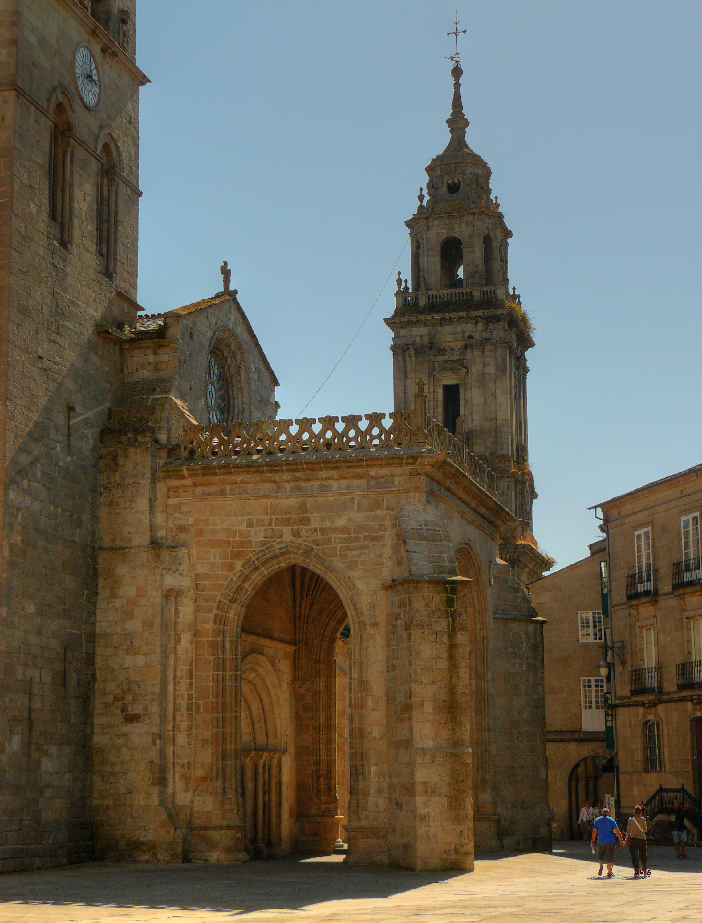 Cathedral of Lugo